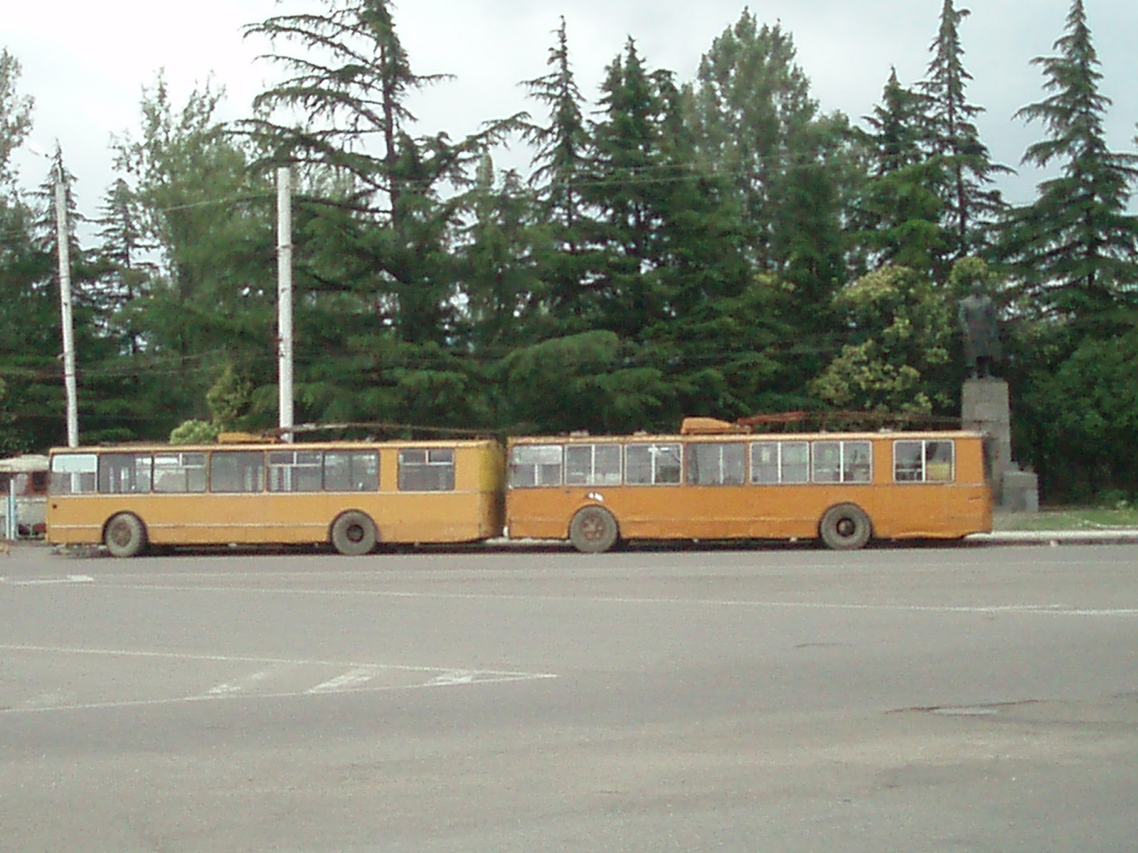 Kutaisi